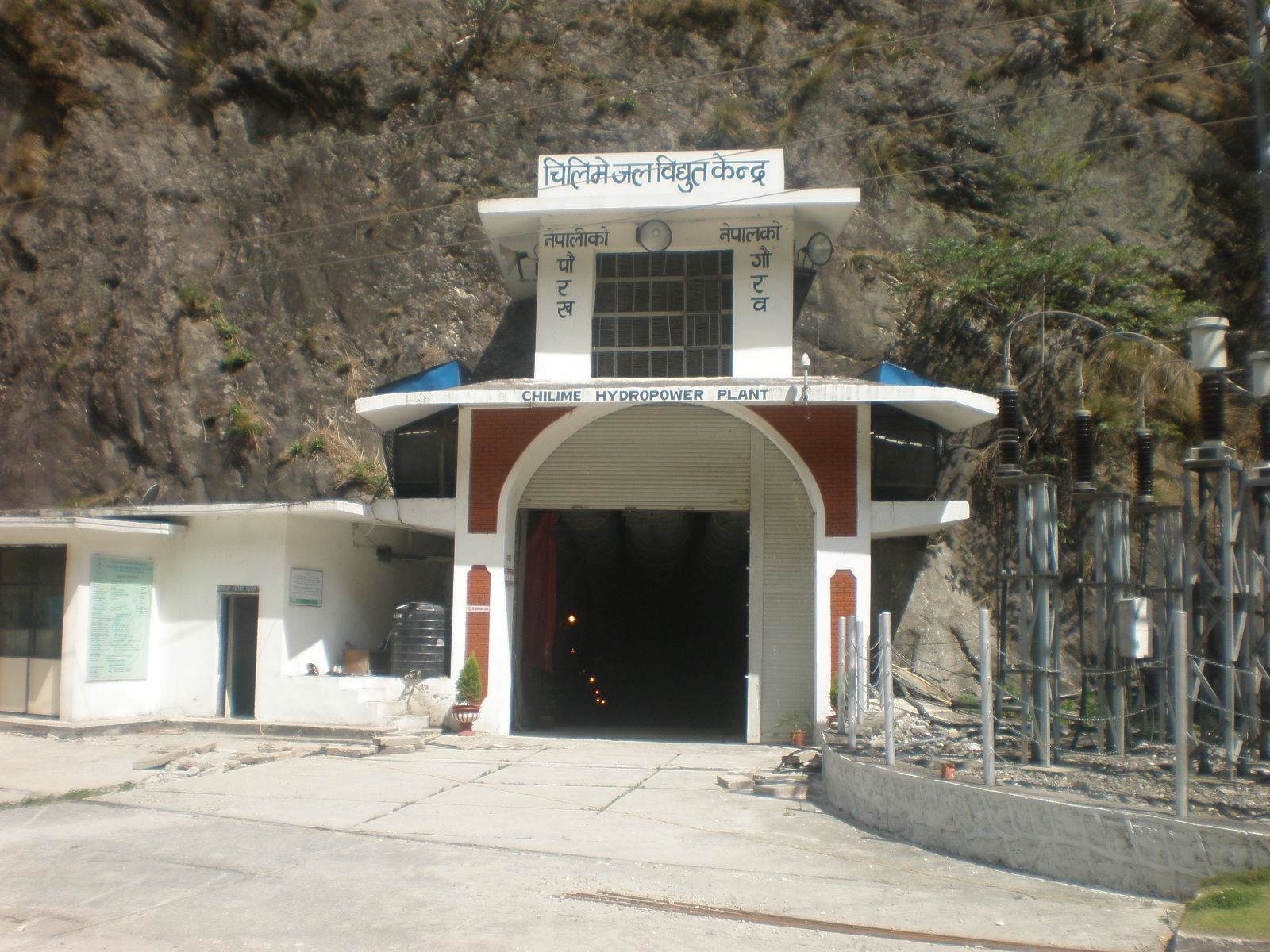 Chilime Hydropower project of Nepal.